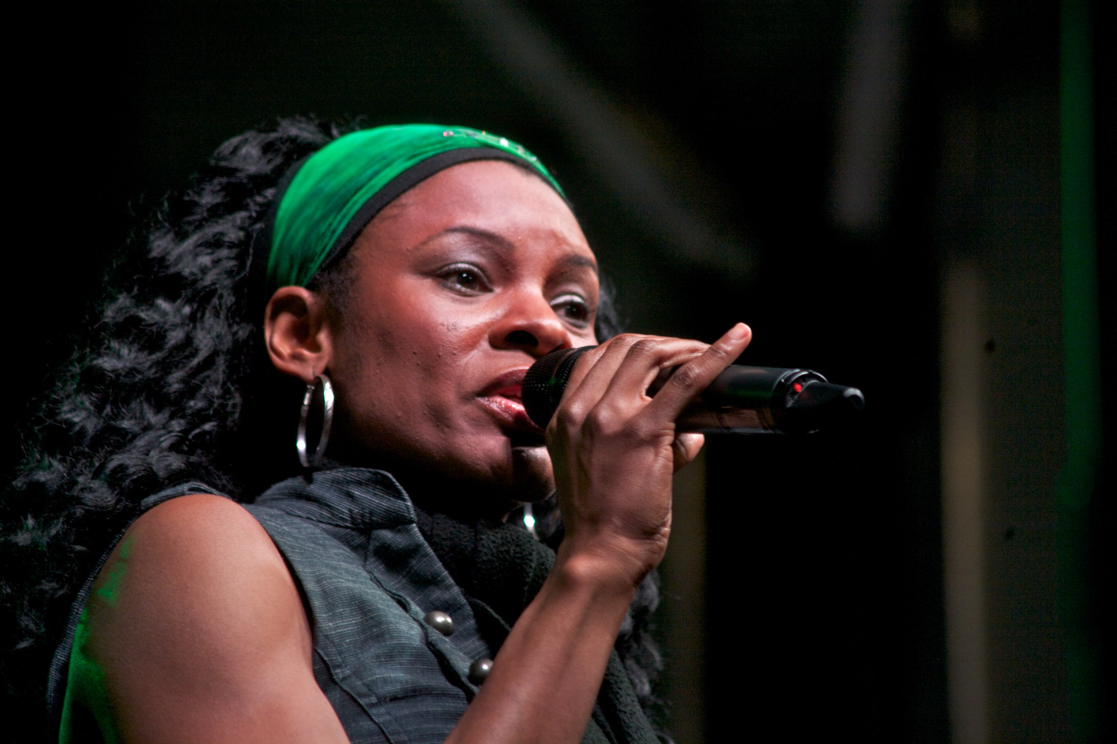 Christian musician Nicole C. Mullen performing in 2011 at Harris, Texas.